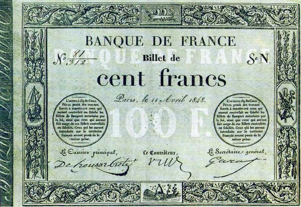 French Banknote 100 francs green 1848